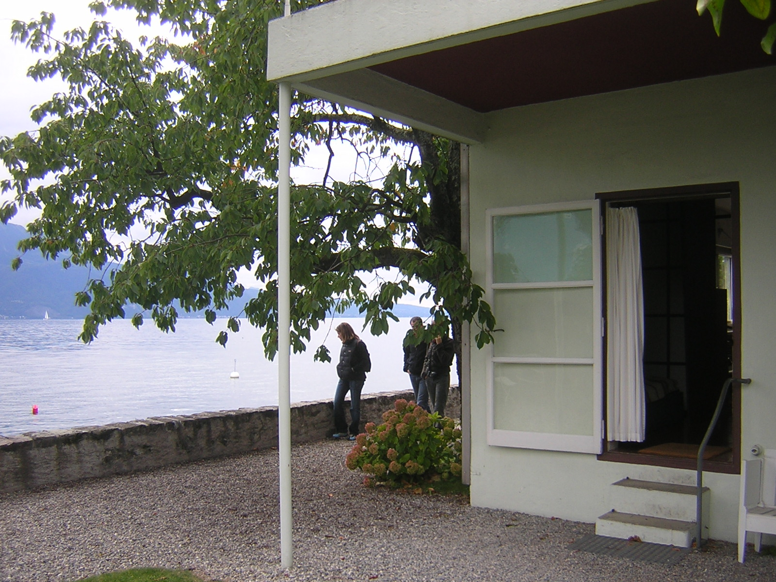 Villa"Le Lac" in Corseaux, Switzerland, built by Le Corbusier for his parents in 1923. This is a view from the garden towards the porch of the house.